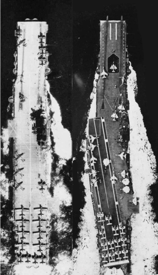 USS Intrepid (CVA-11) before and after SCB-125 refit